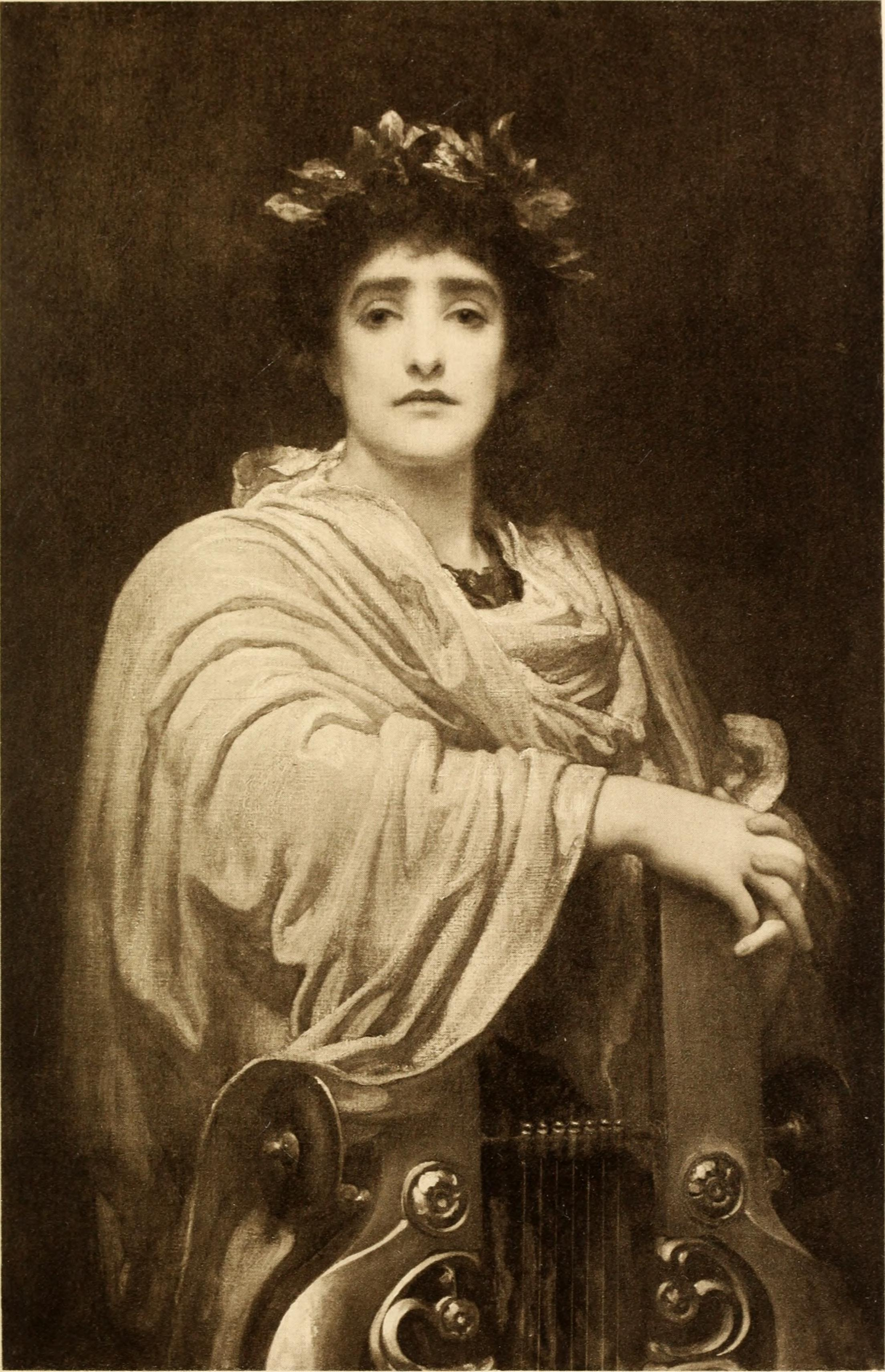 Frederic Leighton - Corinna of Tanagra, c. 1893 Title: Catalogue of the highly important collection of modern pictures and water colour drawings of the English and continental schools of Stephen G. Holland Year: 1908 (1900s) Authors: Christie, Manson & Woods Subjects: Stephen G. Holland Publisher: London : Christie, Manson & Woods Text Appearing Before Image: LORD LEIGHTON, P.R.A. [inscribed: 231.0.0] 67 CORINNA OF TANAGRA [inscribed: Sampson] Half figure to left, in coloured drapery, crowned with leaves, standing facing the spectator, resting her clasped hands upon a lyre. 41 1/2 in. by 27 in. Exhibited at the Royal Academy, 1893 Exhibited at Burlington House, 1897 Exhibited at the Brussels International Exhibition, 1897 See Illustration Text Appearing After Image: 67